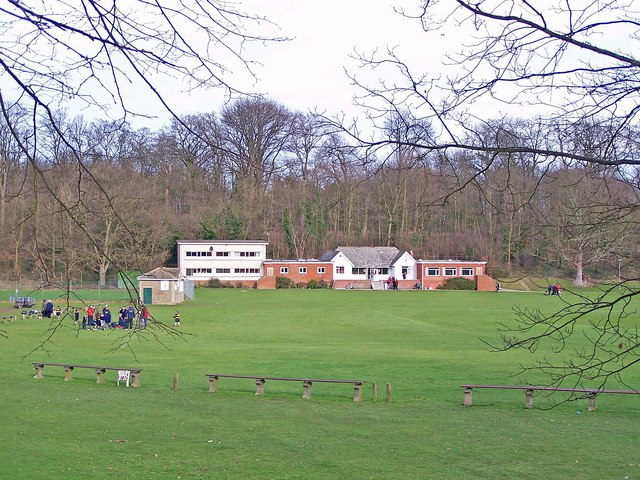 Gore Court Cricket Club Located within Grove Park, Key Street, Sittingbourne. The park is busy on this February morning.